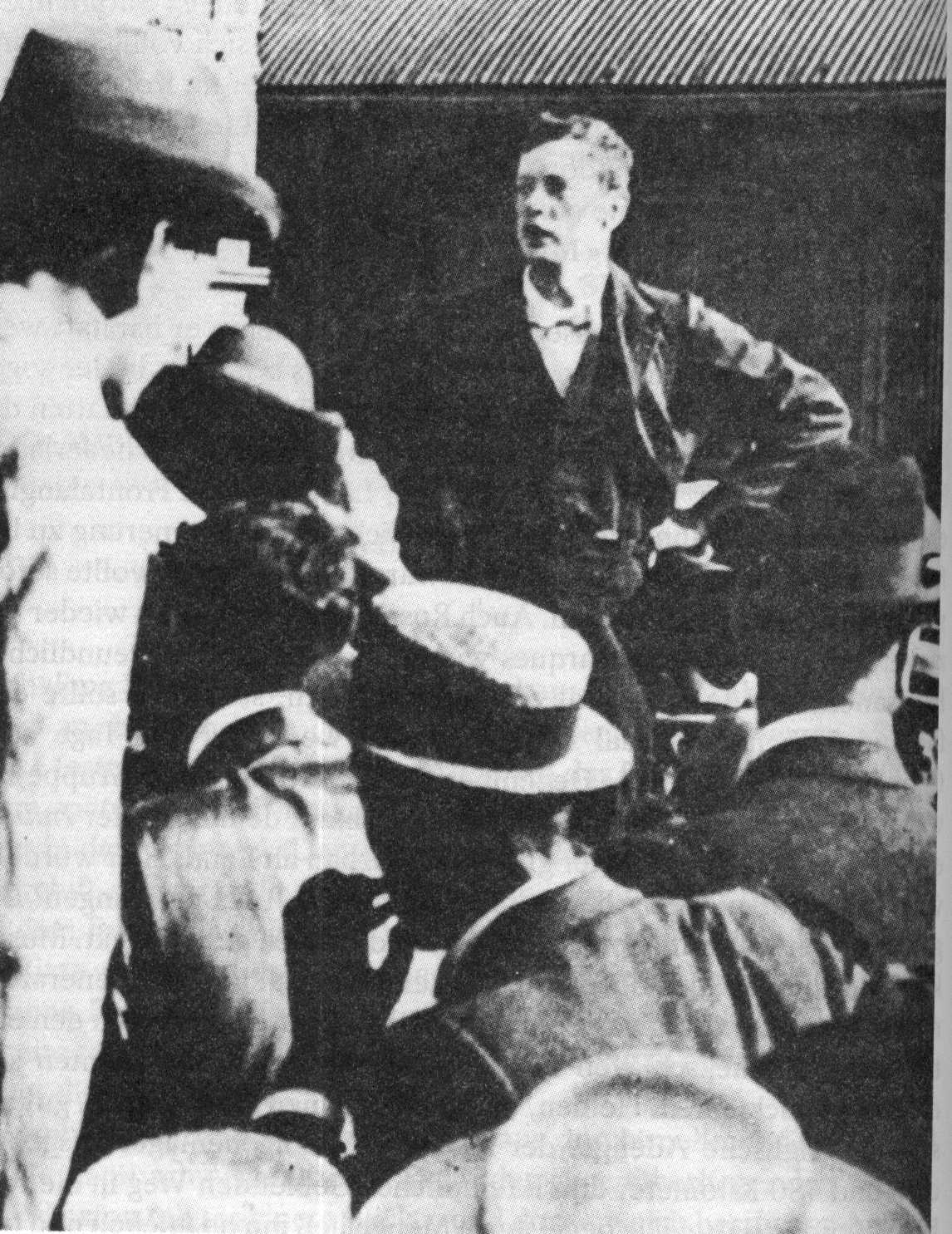 Winston Churchill in Durban in the British Natal Colony in 1899. Delivering a speech after escaping from a South African prisoners' of war camp.